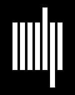 The colophon of The MIT Press.